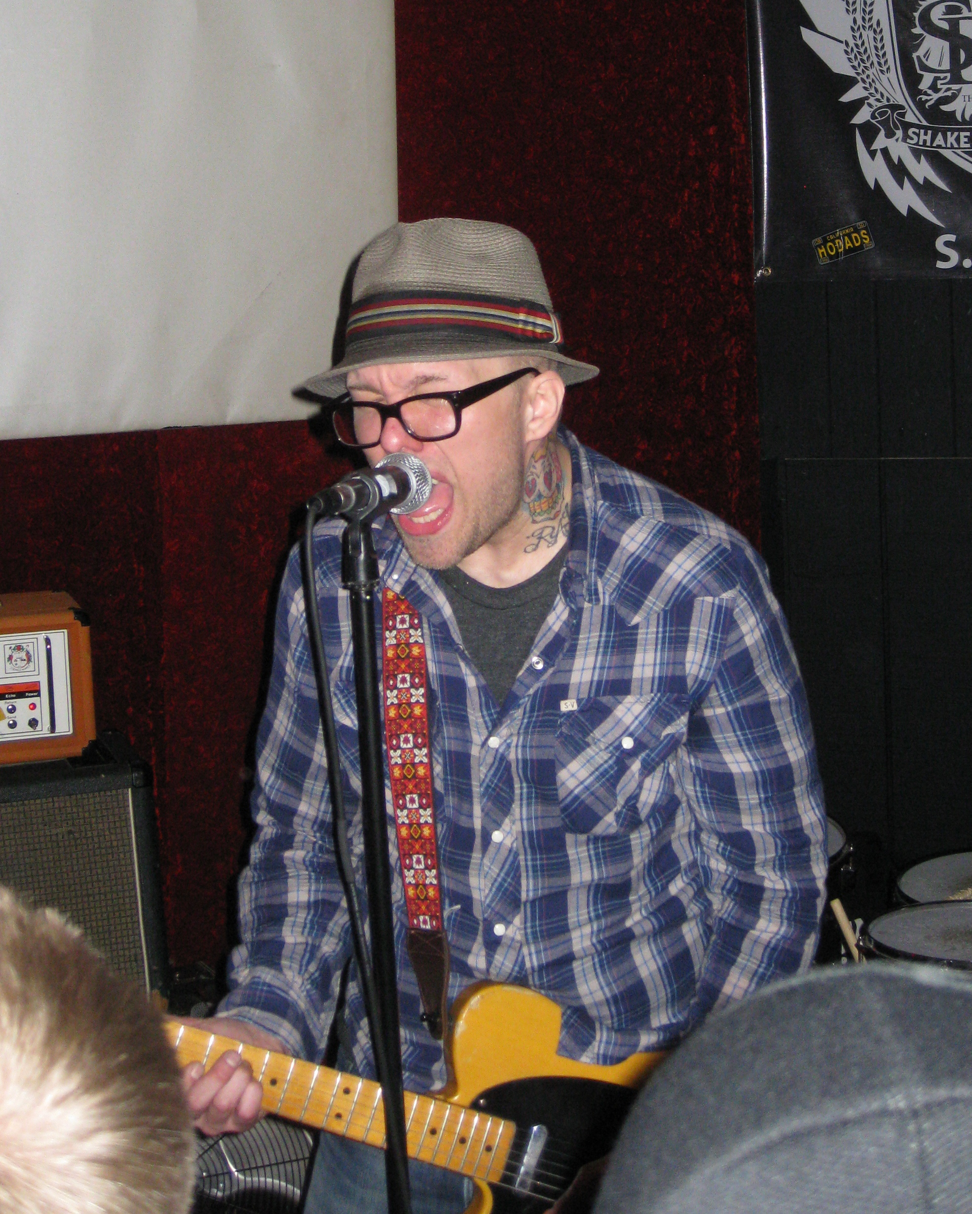 Singer/guitarist Kris Roe of The Ataris performing March 25, 2012 at the Shakedown Bar in San Diego, California.